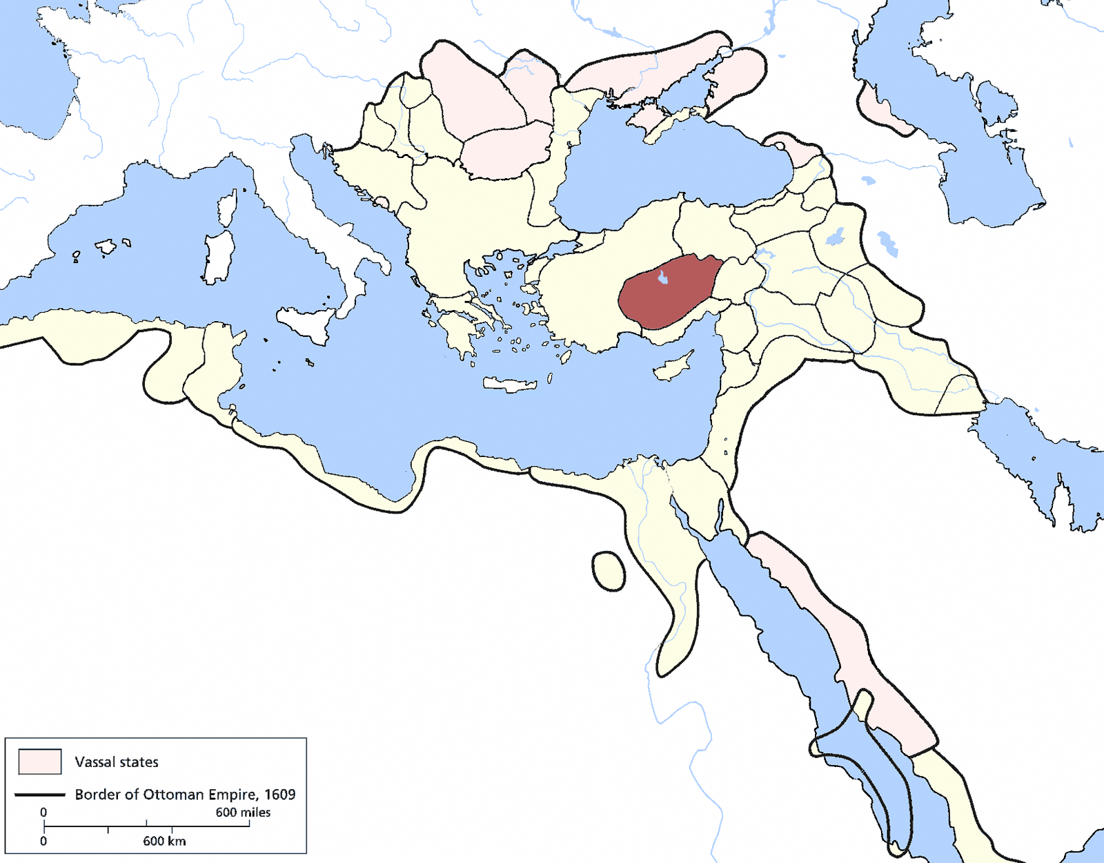 Karaman Eyalet, Ottoman Empire (1609). Source: Encyclopedia of the Ottoman Empire at Google Books By Gábor Ágoston, Bruce Alan Masters